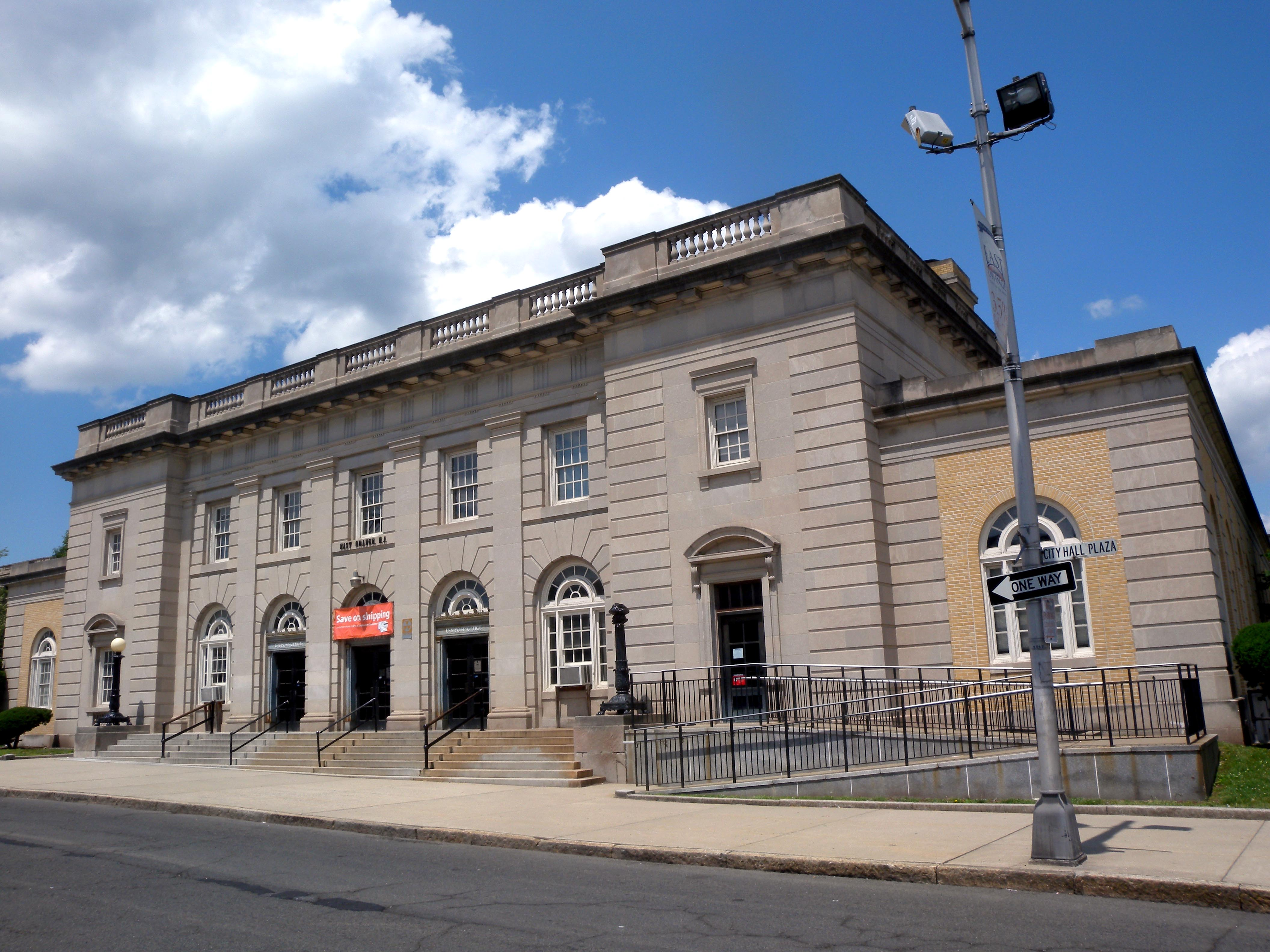 Looking northwest at Post Office of East Orange, New Jersey on a mostly sunny midday.